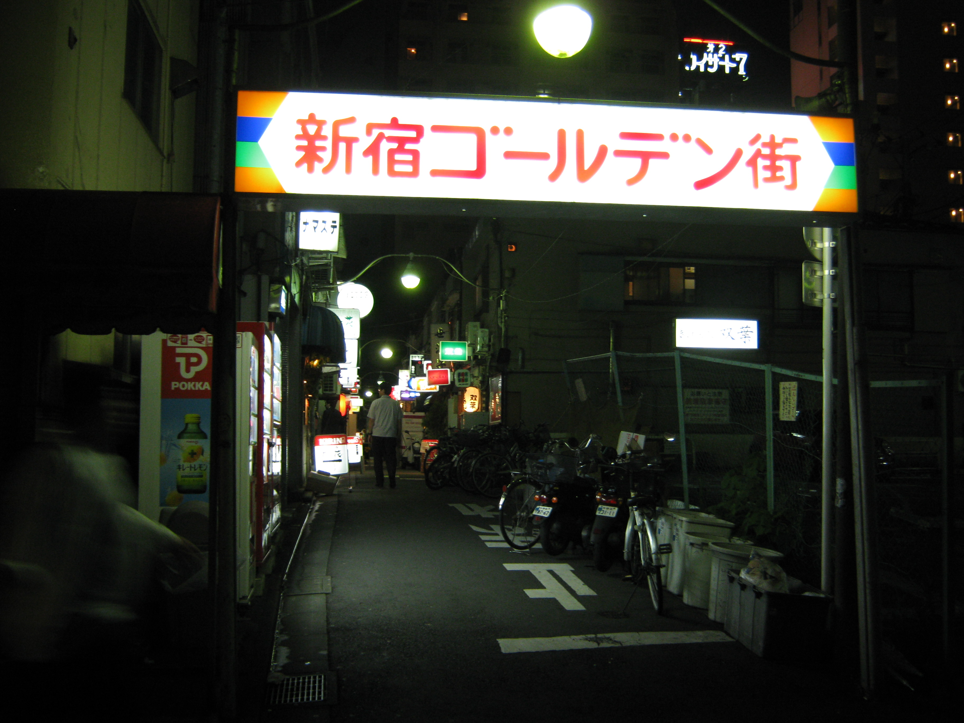 G2 Street is located in Shinjuku Ward, Tōkyō Metropolis.